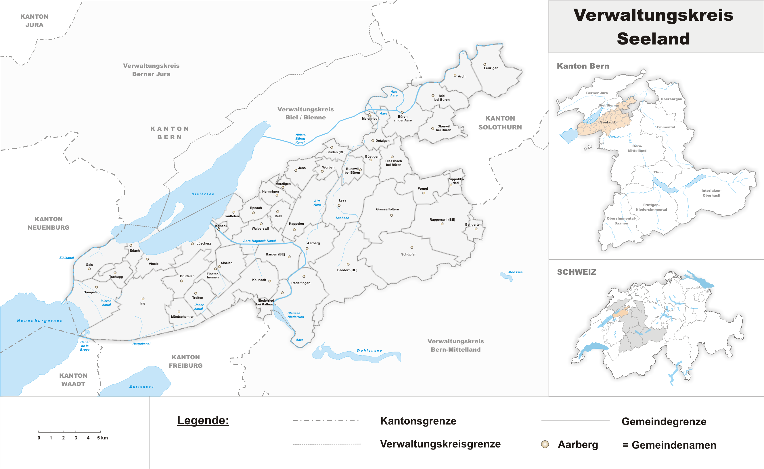 Municipalities in the district of Seeland